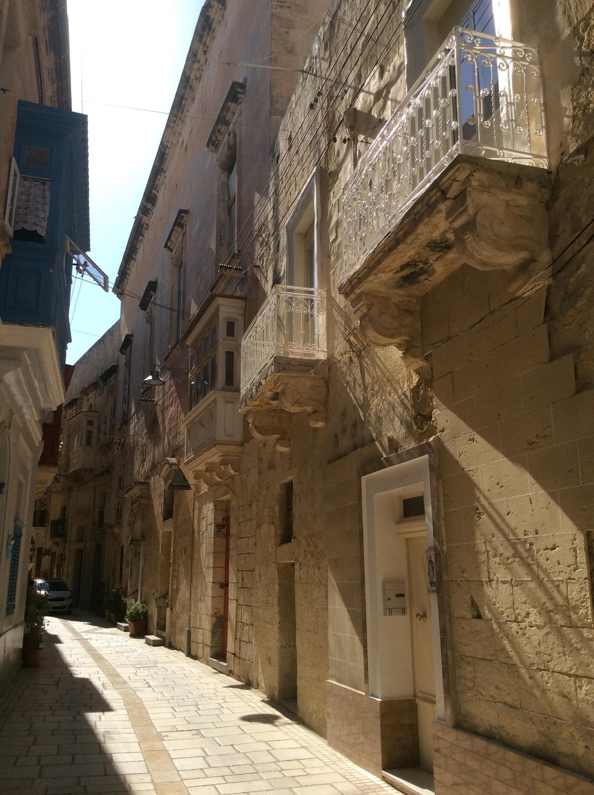 Auberge de France This media is about Maltese cultural property with inventory number 01158.